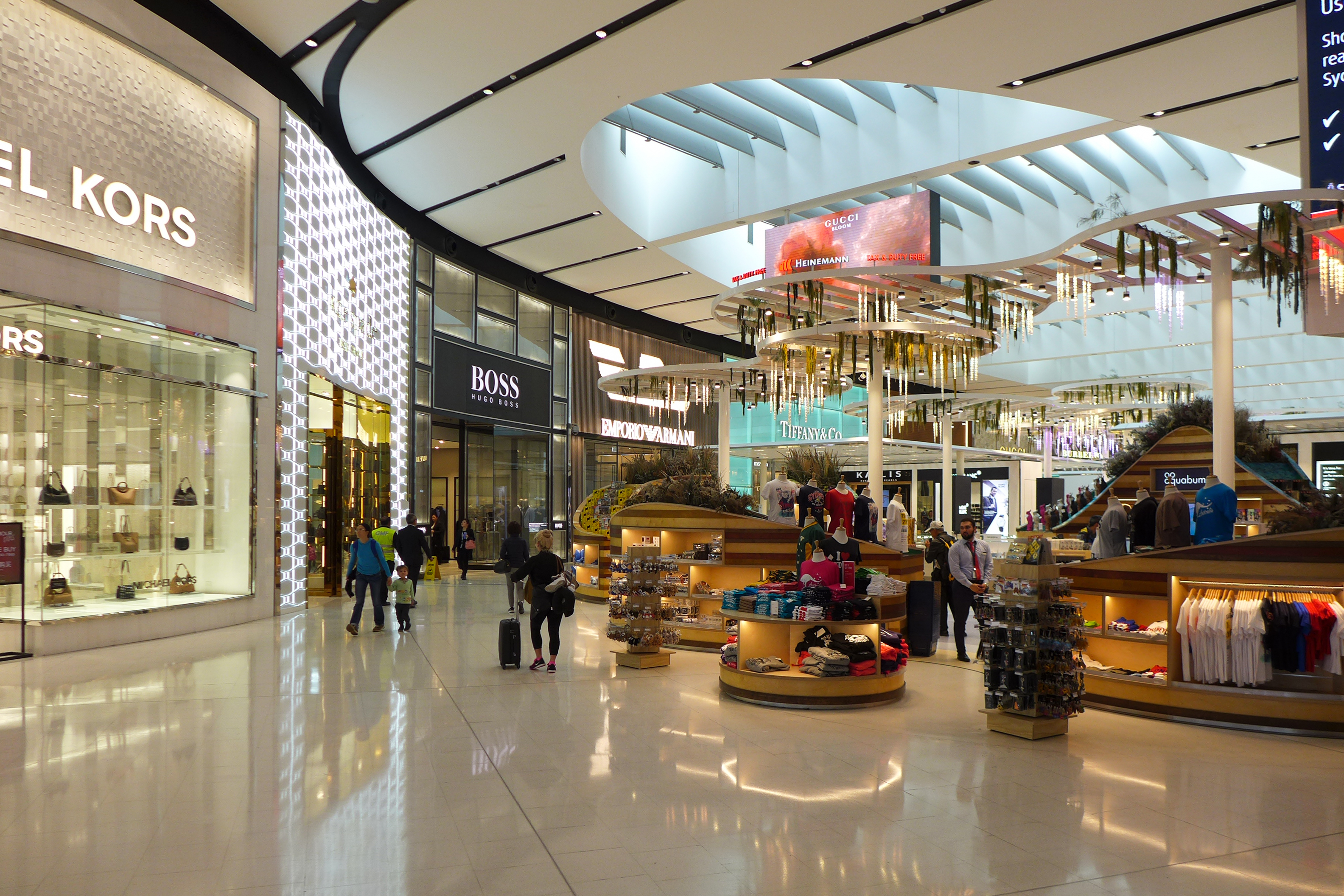 Sydney Airport Terminal 1 Restrict Area shops